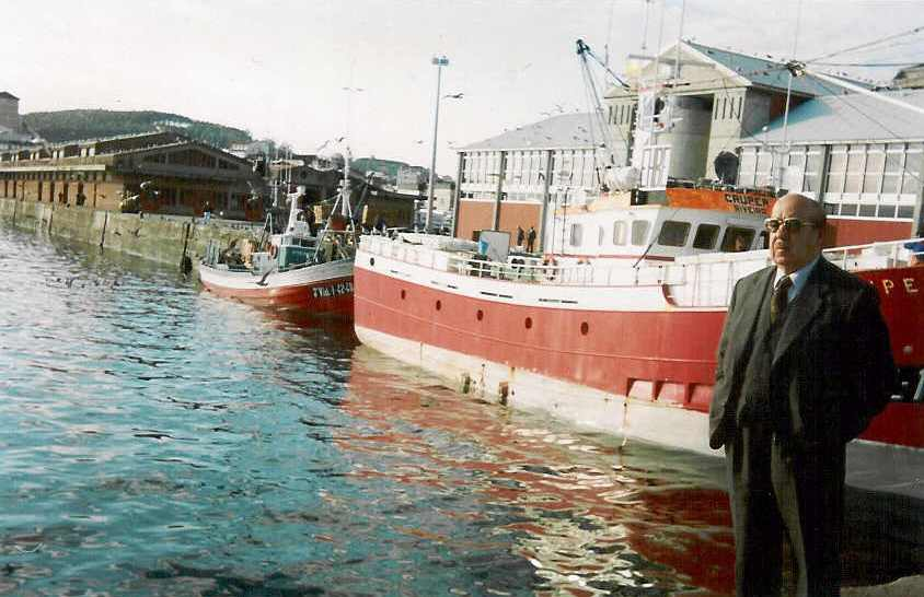 Agostinho Gomes, portuguese writer, in Combarro (Galicia - Spain), 1997.